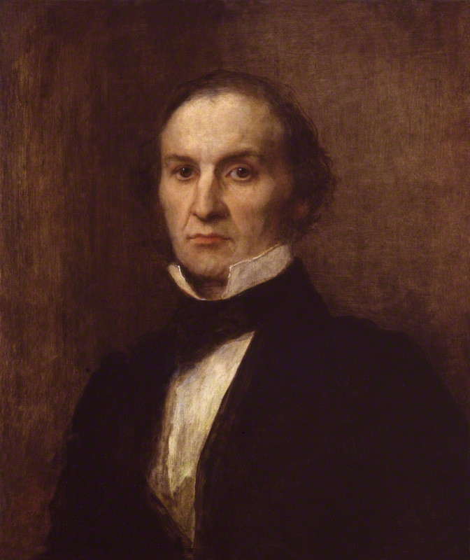 Portrait of the British Prime Minister William Ewart Gladstone painted by George Frederic Watts in 1859